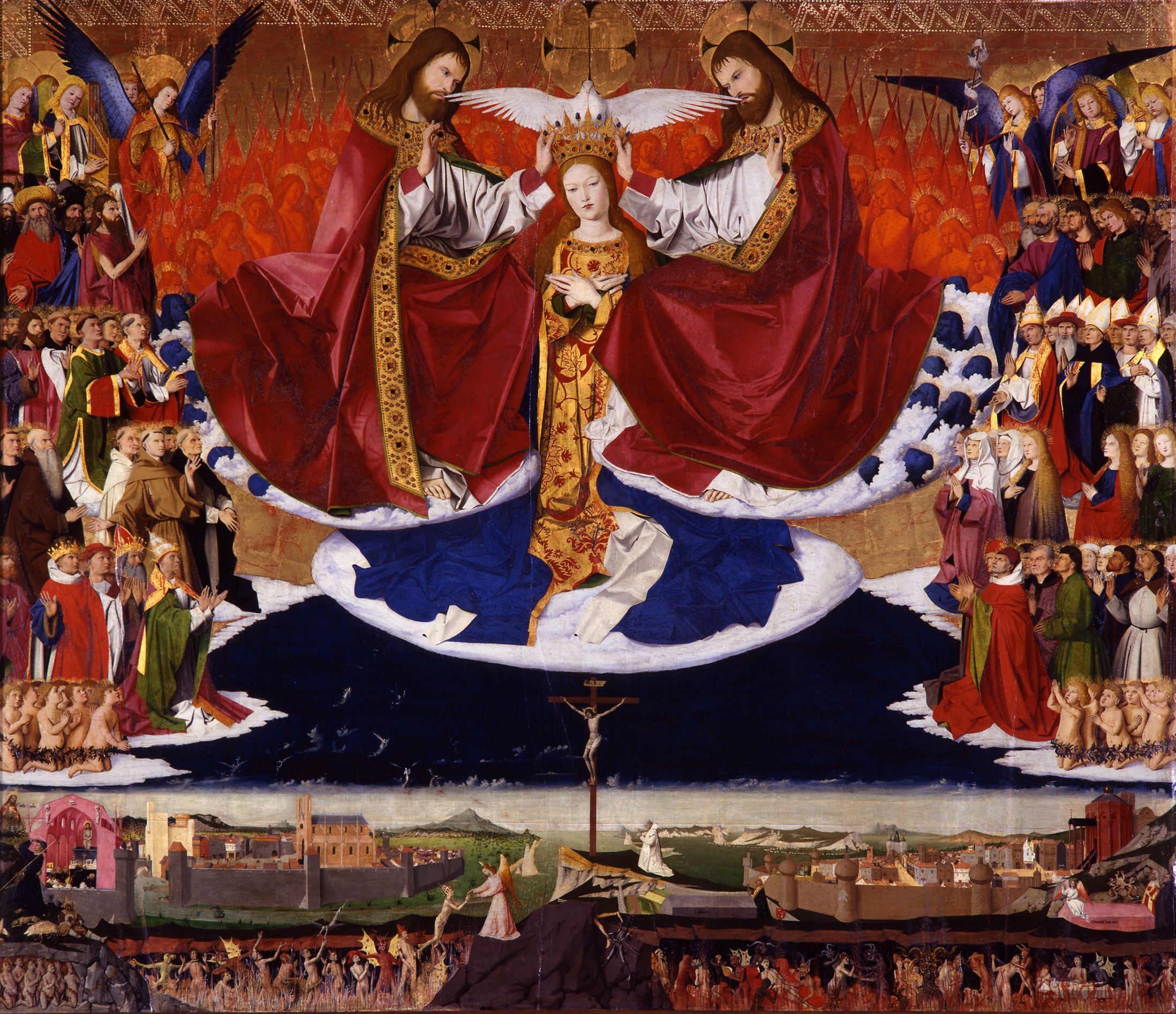 Coronation of the Virgin, altar of the Charterhouse of Villeneuve-lès-Avignon. In this painting, Mary is crowned by the Holy Trinity. Unusually, God the Father and Jesus are shown as identical or with the same form.